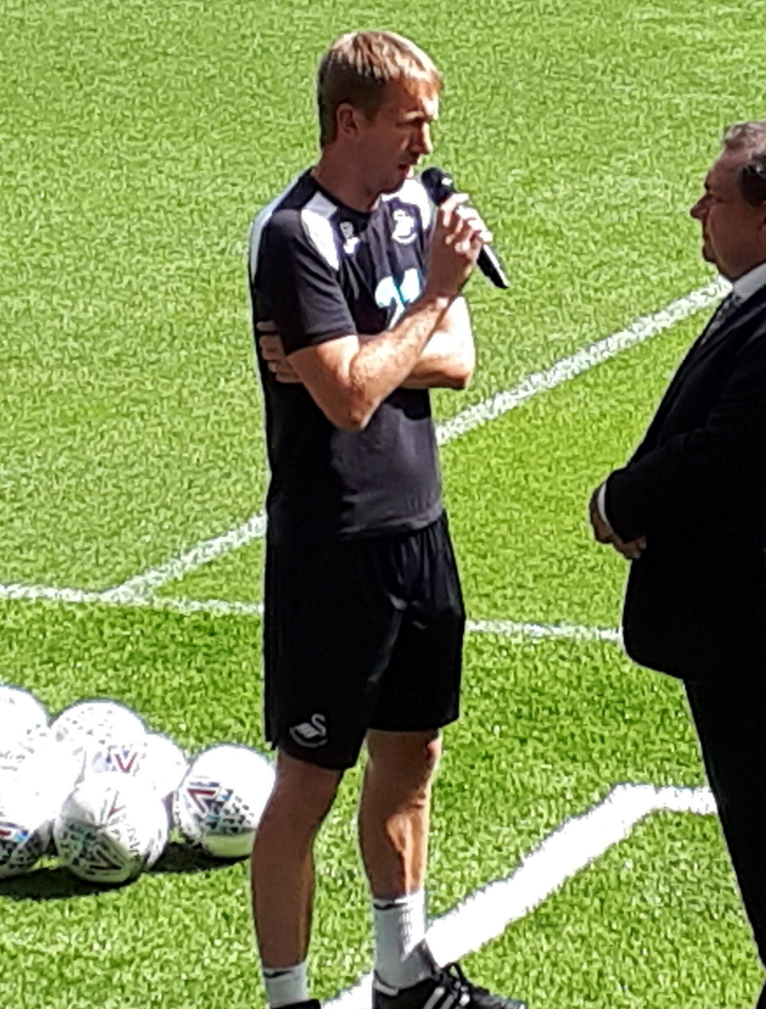 Manager Graham Potter at the Liberty Stadium, August 2018.